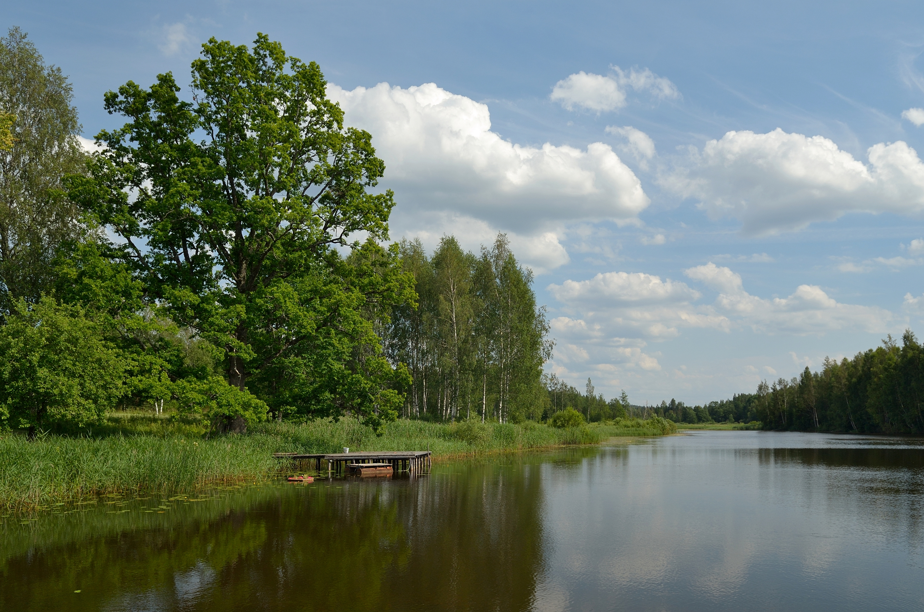 Palu impounded lake on Palu river